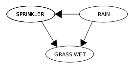 Nodes-only picture (without the CPTs) of "SimpleBayesNet.svg"